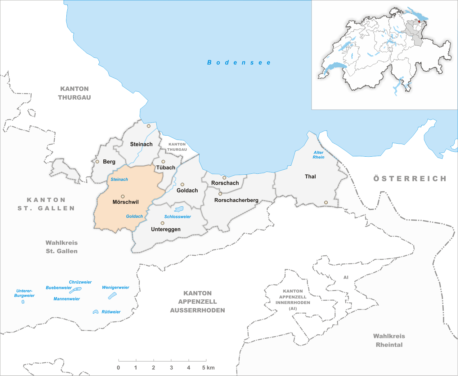 Municipality Mörschwil